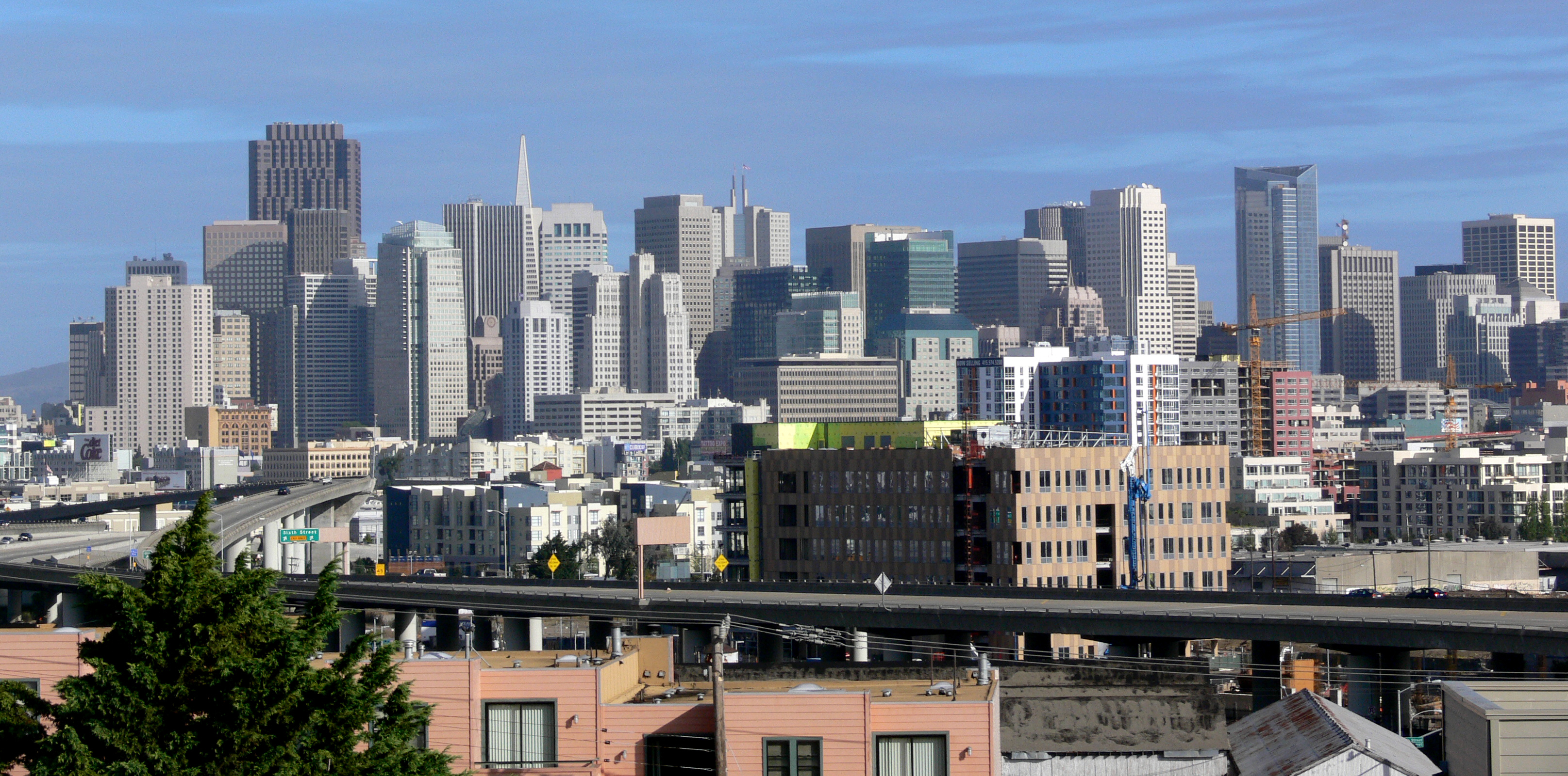 the skyline of downtown San Franciscio, seen from Potrero Hill